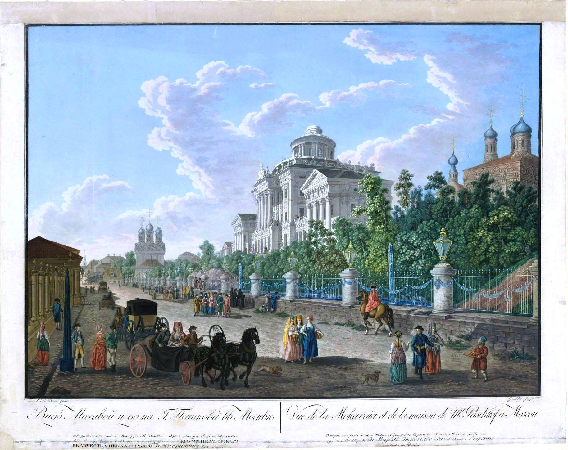 Plate 2 from the definitive Twelve Views of Moscow by De la Barthe. This is one of many different hand-coloured copies.